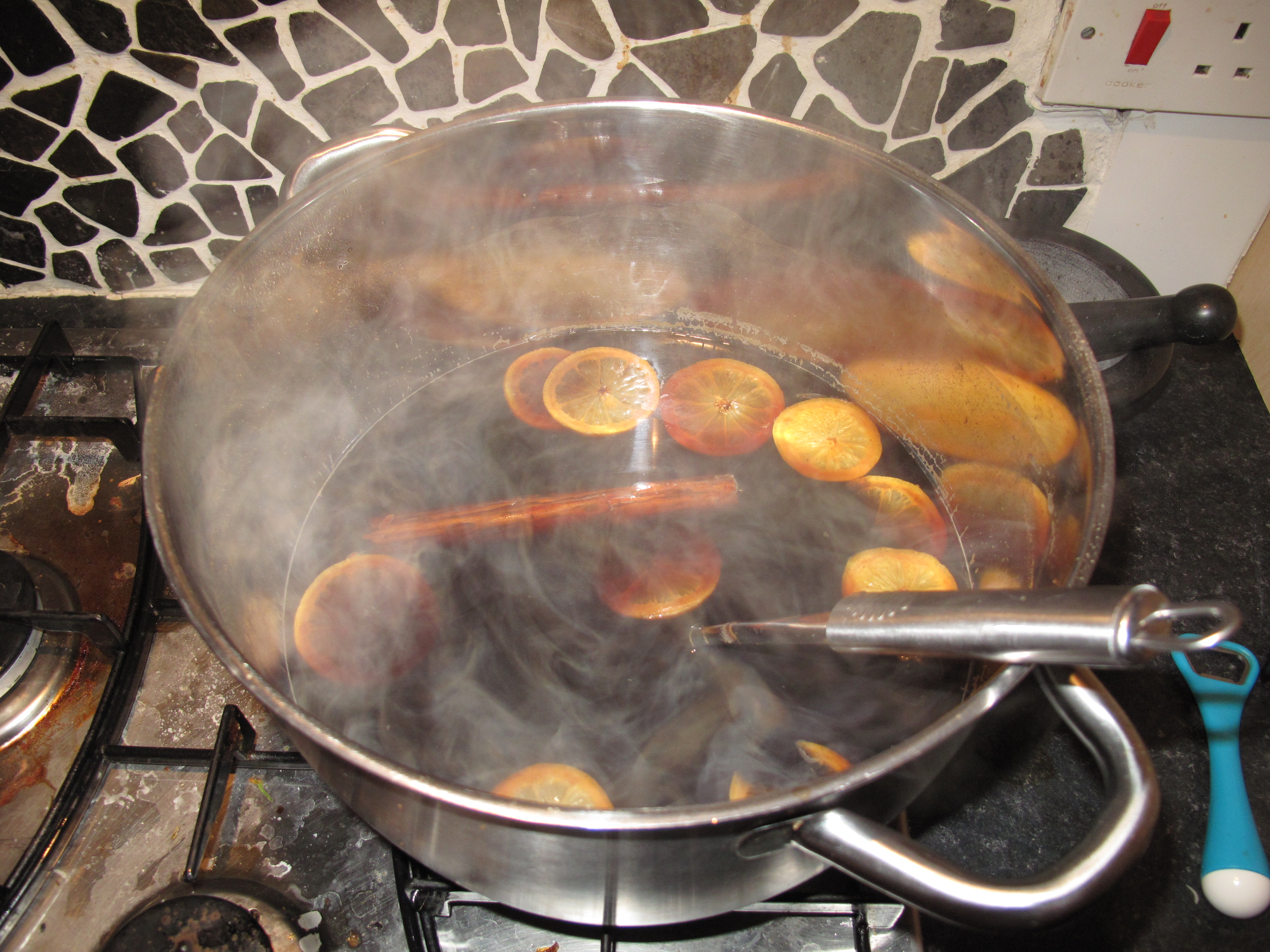 7 pints of brown ale, 1 bottle of dry sherry, cinnamon stick, ground ginger, ground nutmeg, lemon slices